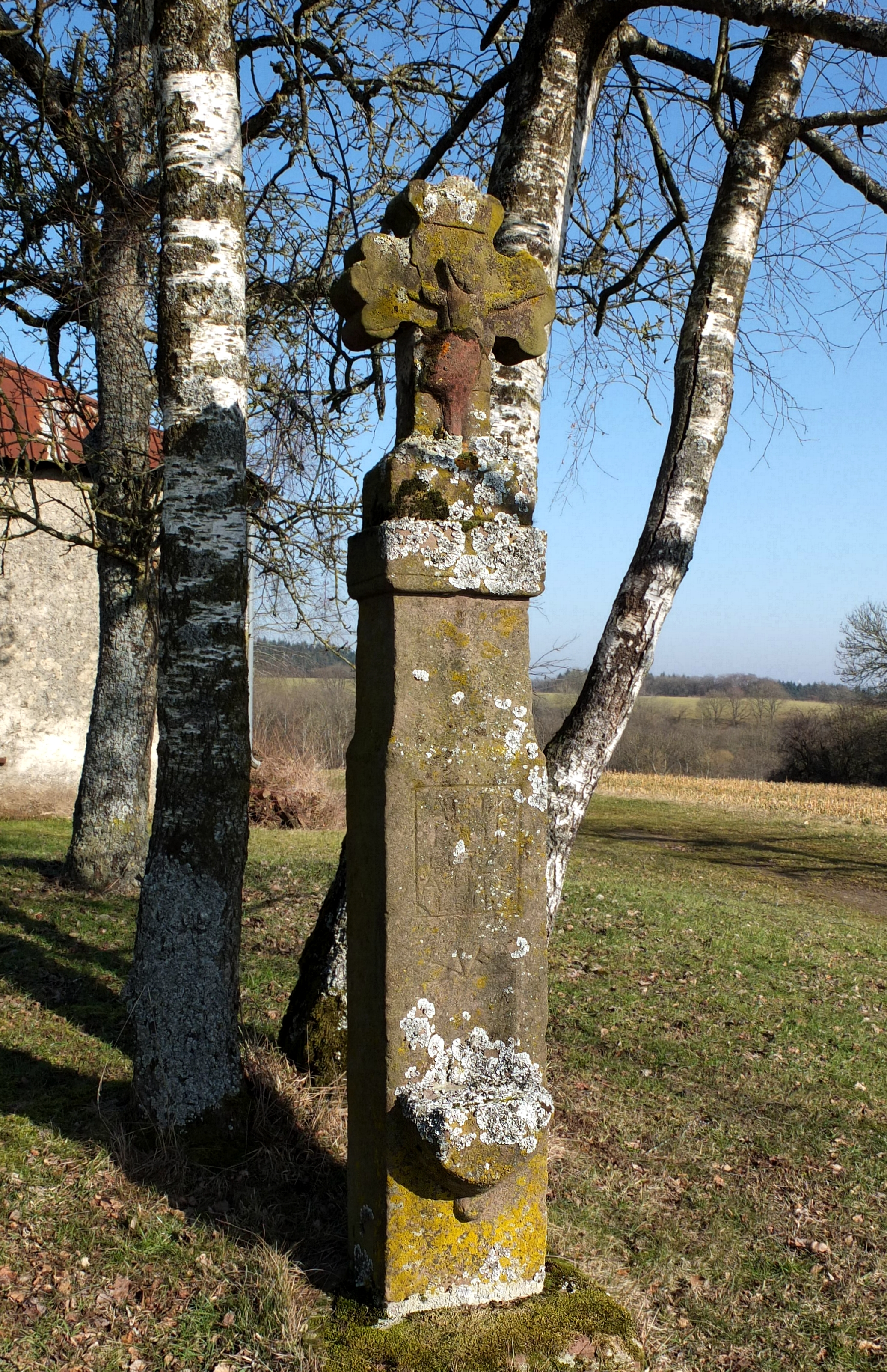 Wayside cross (1801) in Altscheid (Eifel), Germany. This is a photograph of an architectural monument.It is on the list of cultural monuments of Altscheid